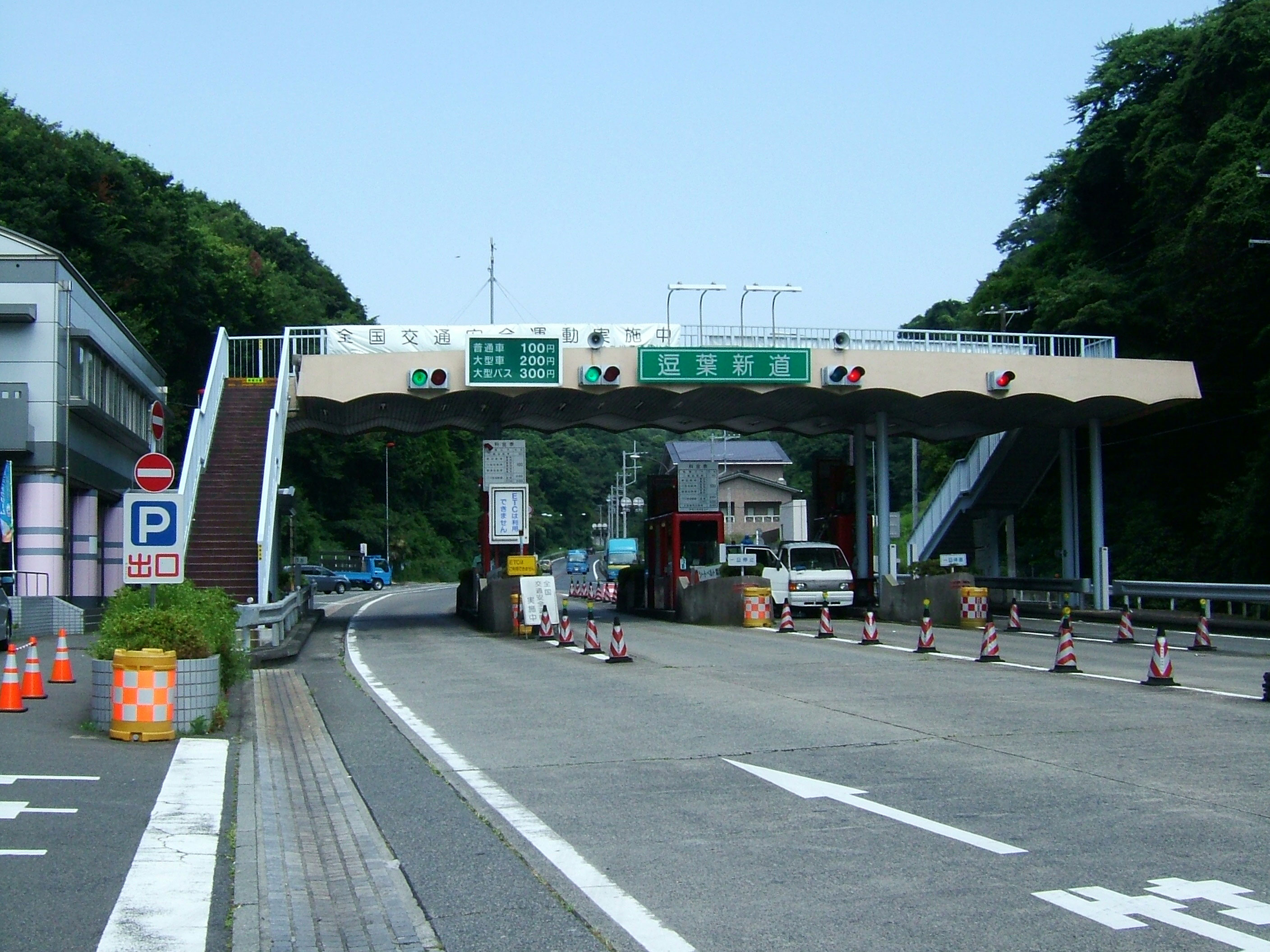 Zuyo Toll Road toll barrier (toll gate)